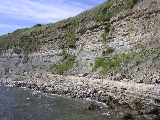 Cliff face west of Bran Point. A view of the cliffs west of Bran Point, taken from Bran Ledge. The Corallian strata are quite clearly visible - for more details see Ian West's excellent Geology of the Wessex Coast website